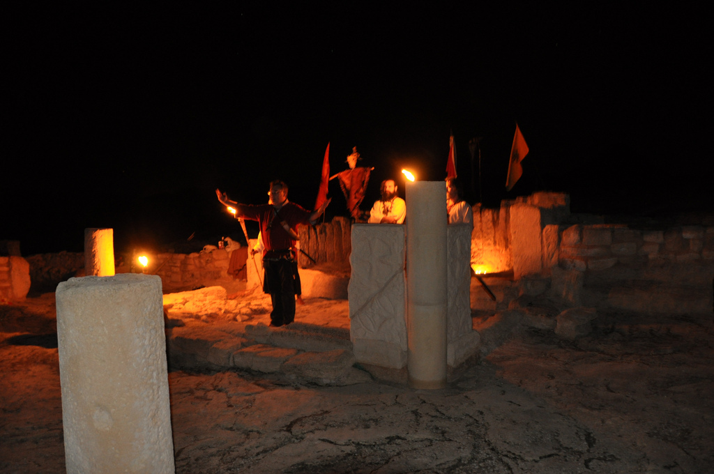 Temple of Odín in Albacete